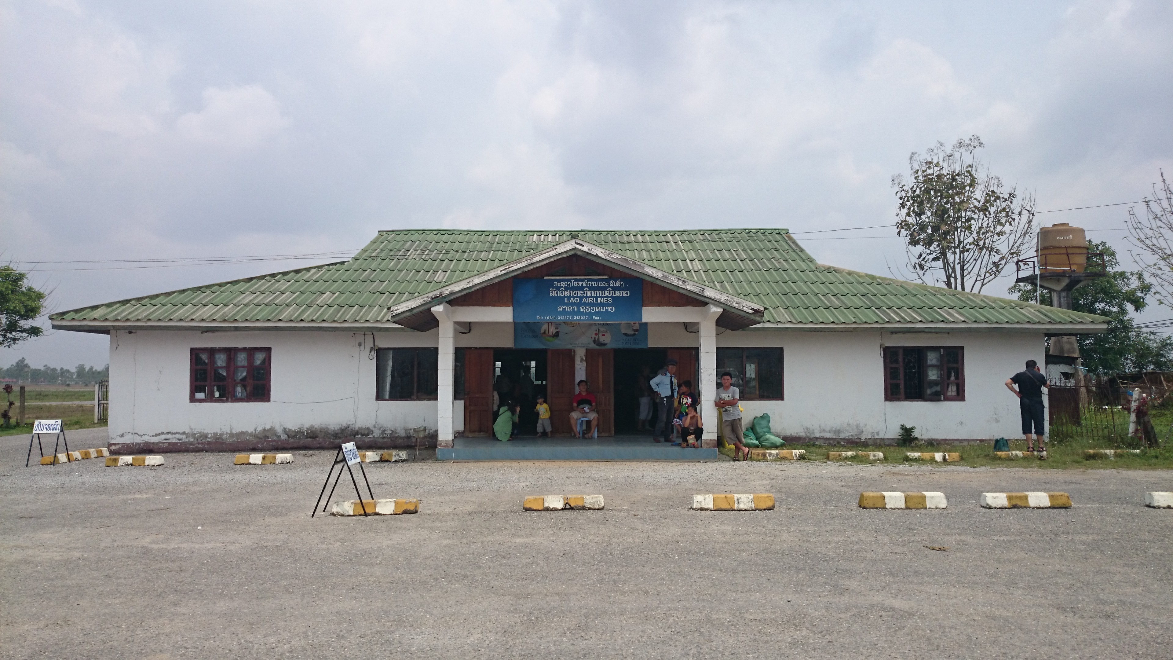 Terminal building of Xieng Khouang Airport, Laos